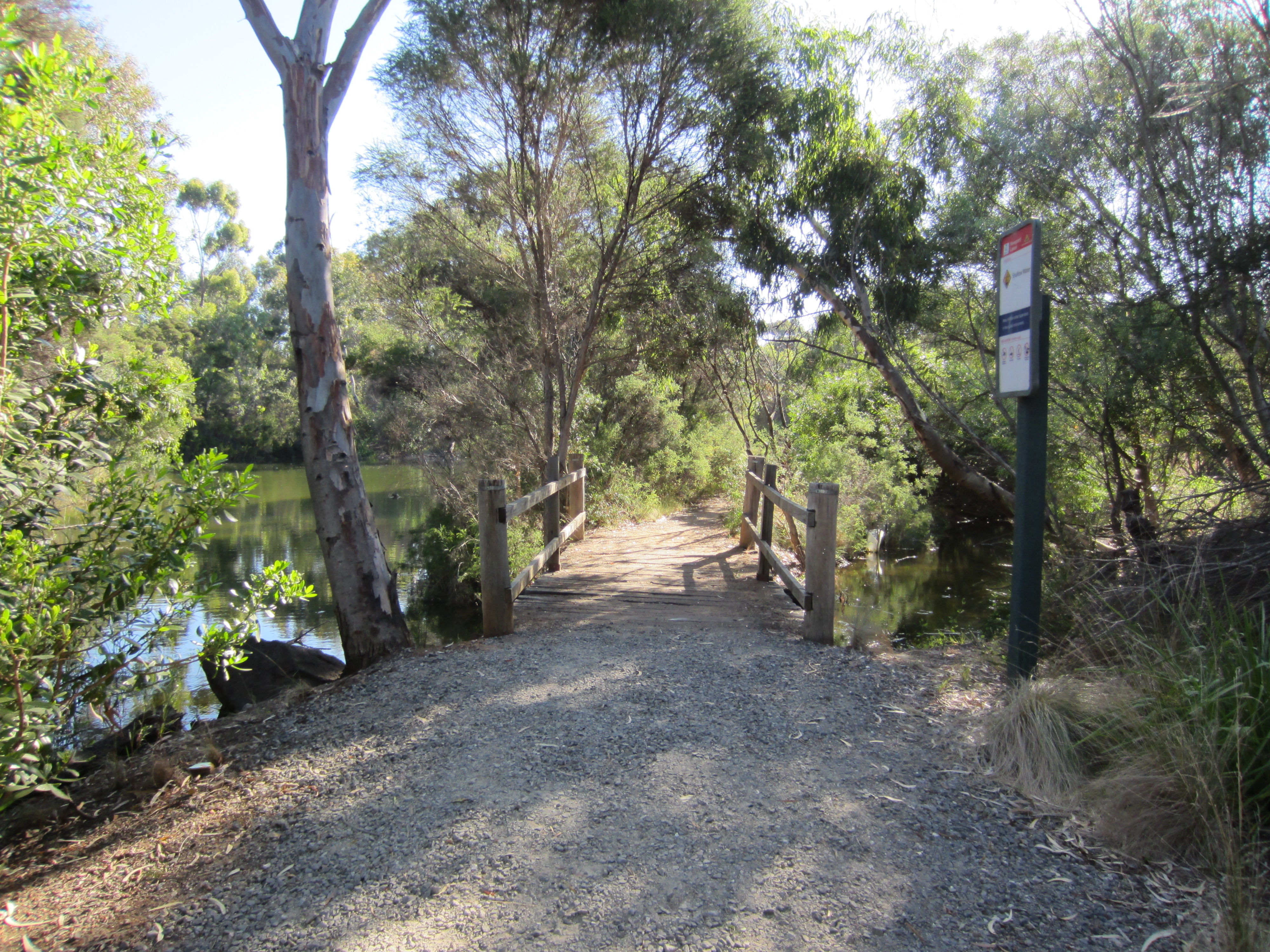 Newport Lakes, bridge, Victoria